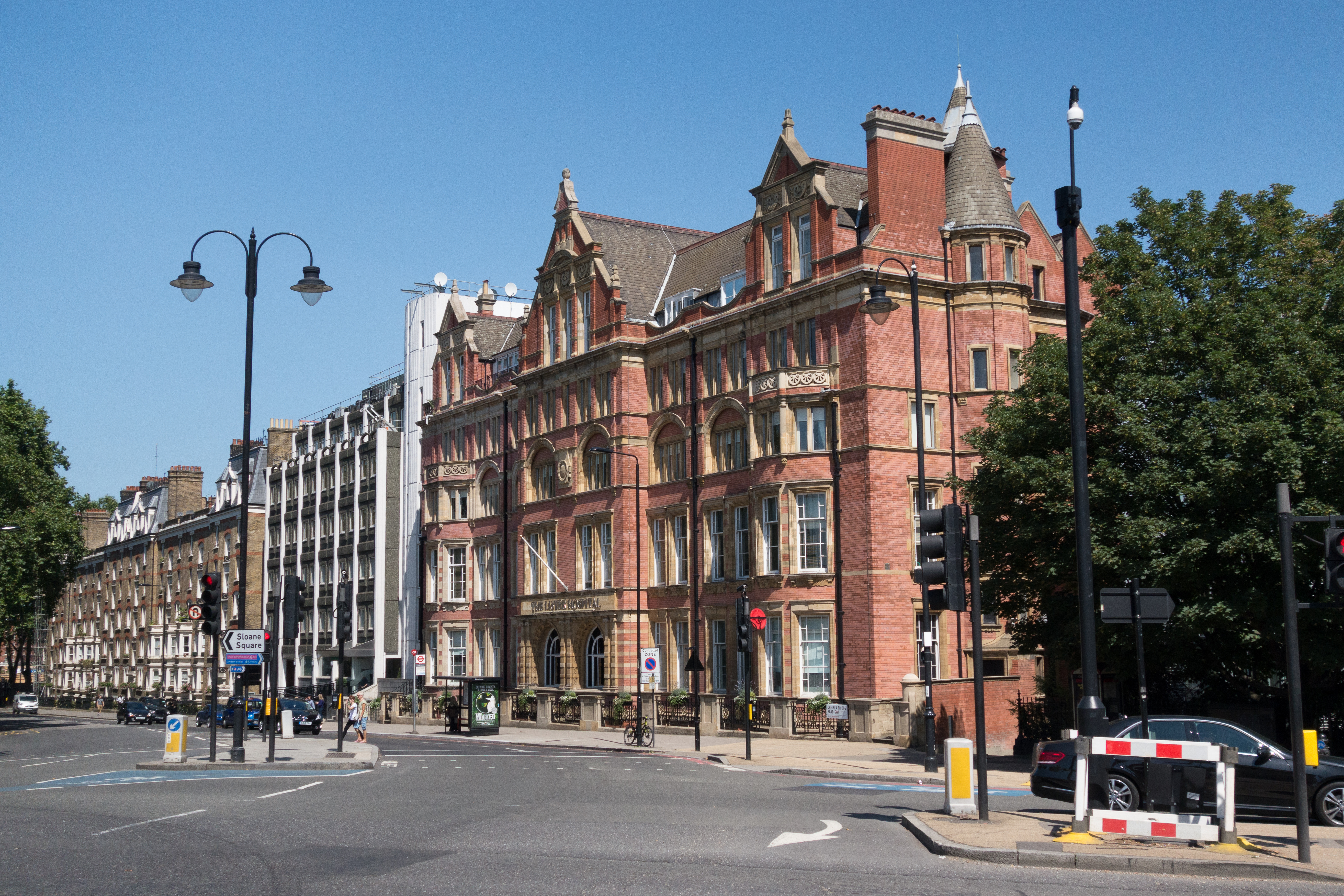 Looking north up Chelsea Bridge Road from near the bridge.